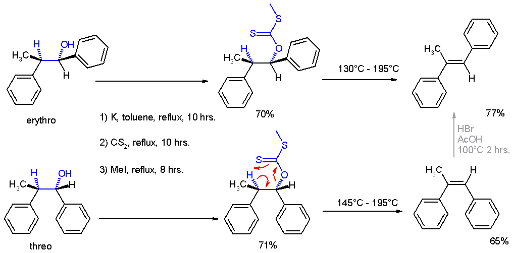 Cram Asymmetric Induction Chugaev Reaction